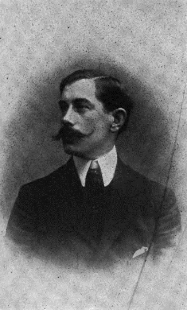 Alphonse de Châteaubriant